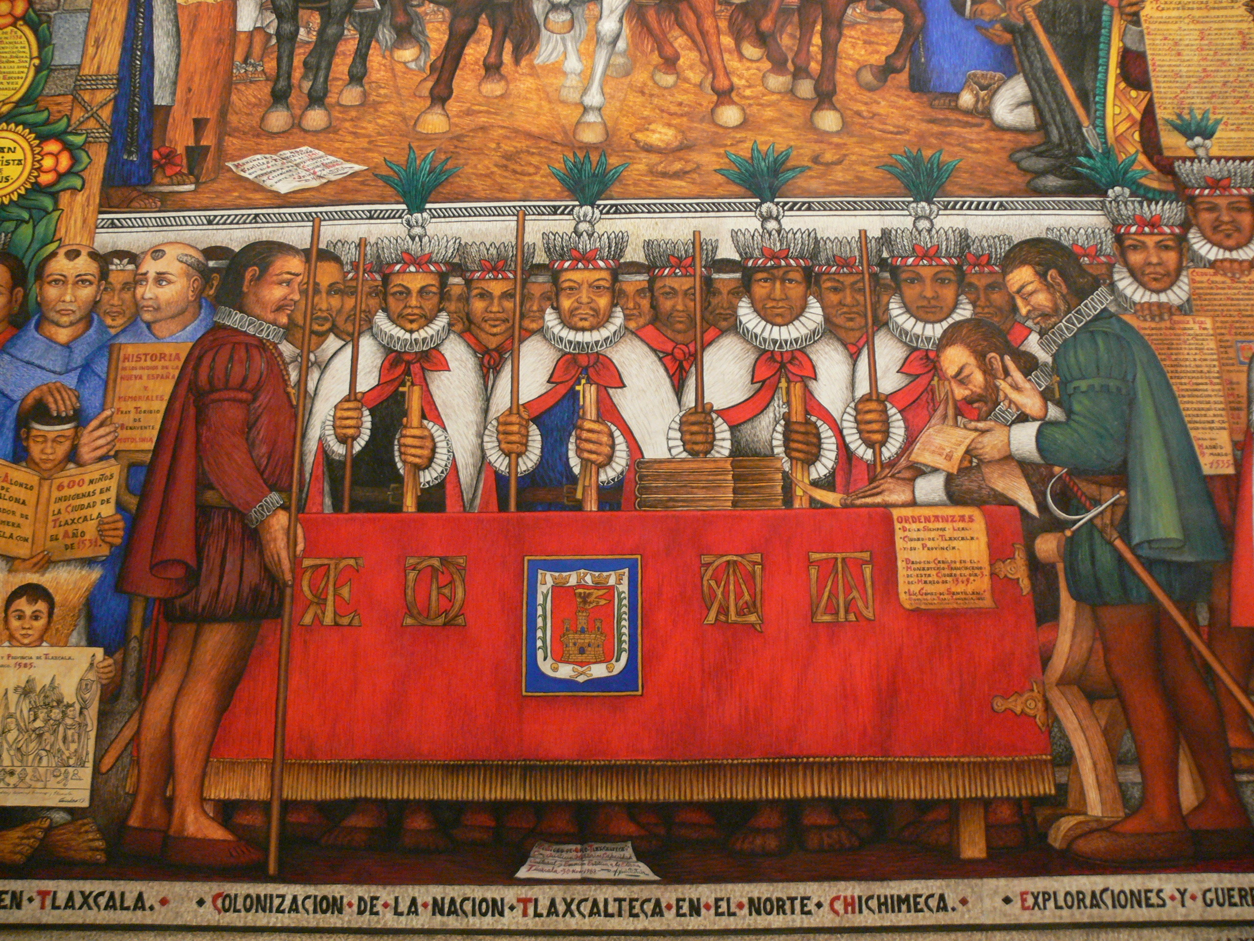 Tlaxcala city. Palacio de Gobierno: Murals - Tlaxcala gets a Spanish province ( 1545 )